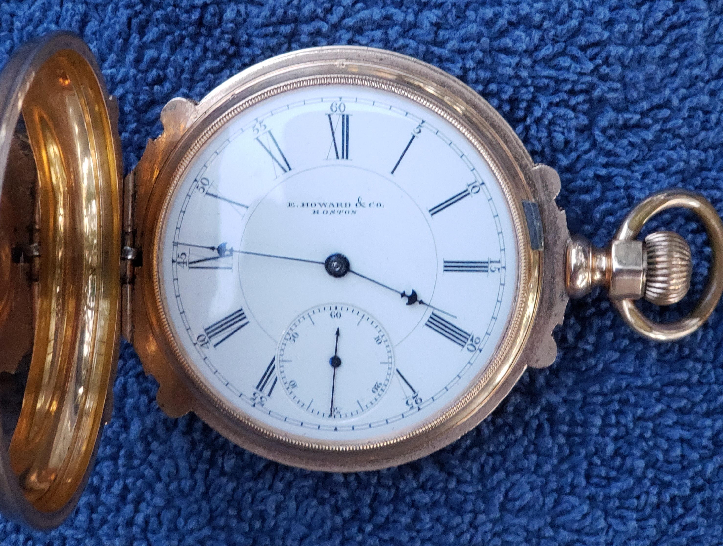 E. Howard & Co watch given to Aaron Y. Ross by Wells Fargo